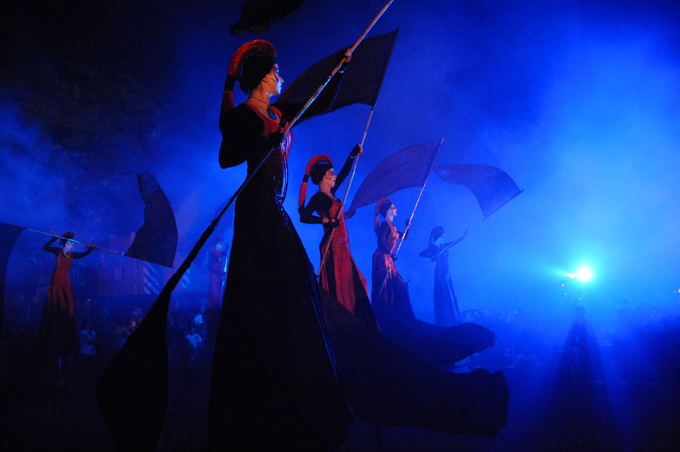 Close Act Theatre. Performance: ActRed